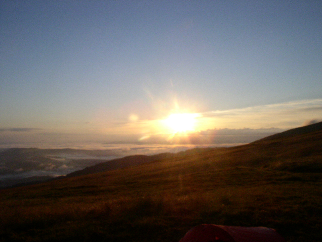 Polonina Borzha range. Carpathian Mountains, Ukraine.